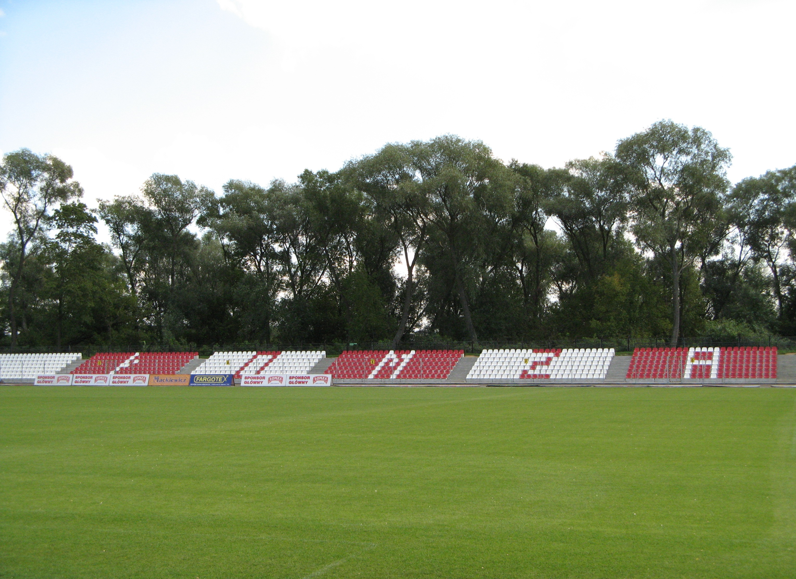 Stadium of ŁKS Łomża football club from Łomża